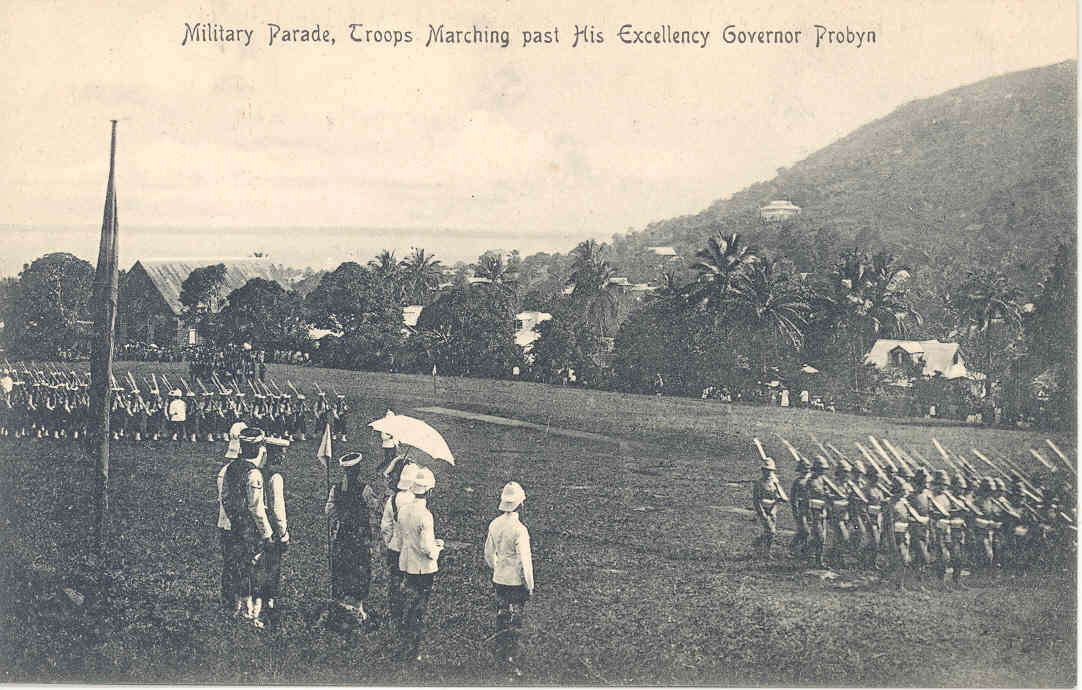 Military Parade in Sierra Leone observed by Governor Leslie Probyn